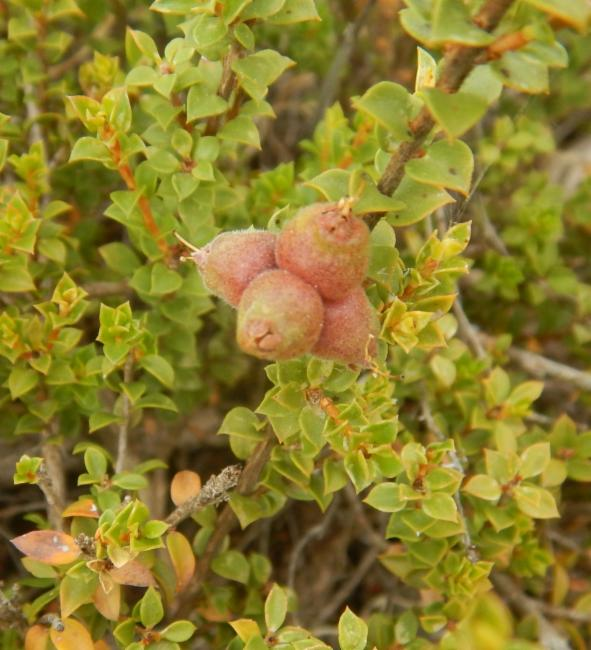 Foliage and fruit of Kunzea pomifera growing near Bordertown, South Australia